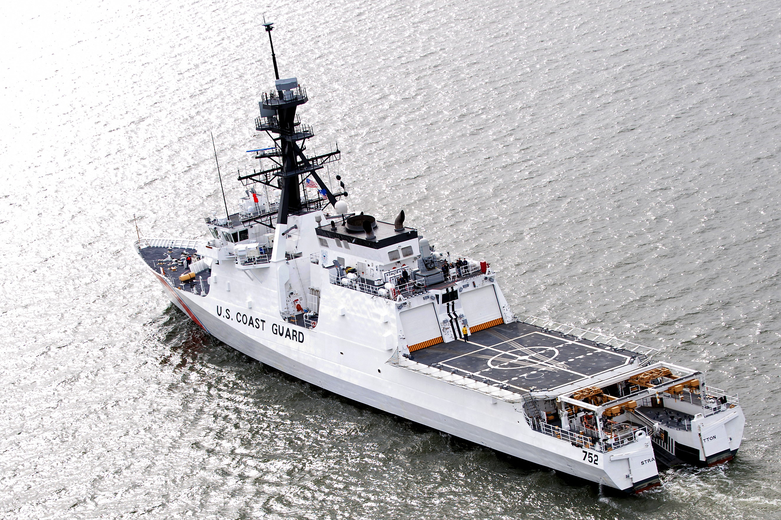 Army Gen. Martin E. Dempsey, chairman of the Joint Chiefs of Staff, and Coast Guard Commandant Adm. Robert Papp Jr., visit the U.S. Coast Guard Cutter Stratton near Annapolis, Md., Oct. 31, 2011. Stratton is the third of eight planned Legend-class ships in the Coast Guard's new line of technologically-advanced cutters.